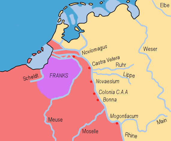 The Frankish Foederati' around 360 A.D; based on the maps present at the tacitus.nu website; LINK; showing the Frankish expansion.